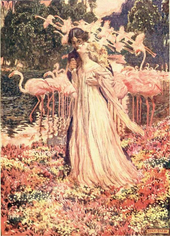 Byam Shaw's illustration for Poe's Eleonora in "Selected Tales of Mystery" (London : Sidgwick & Jackson, 1909) on the page to face p. 140 with caption "A magic prison-house of grandeurand of glory"